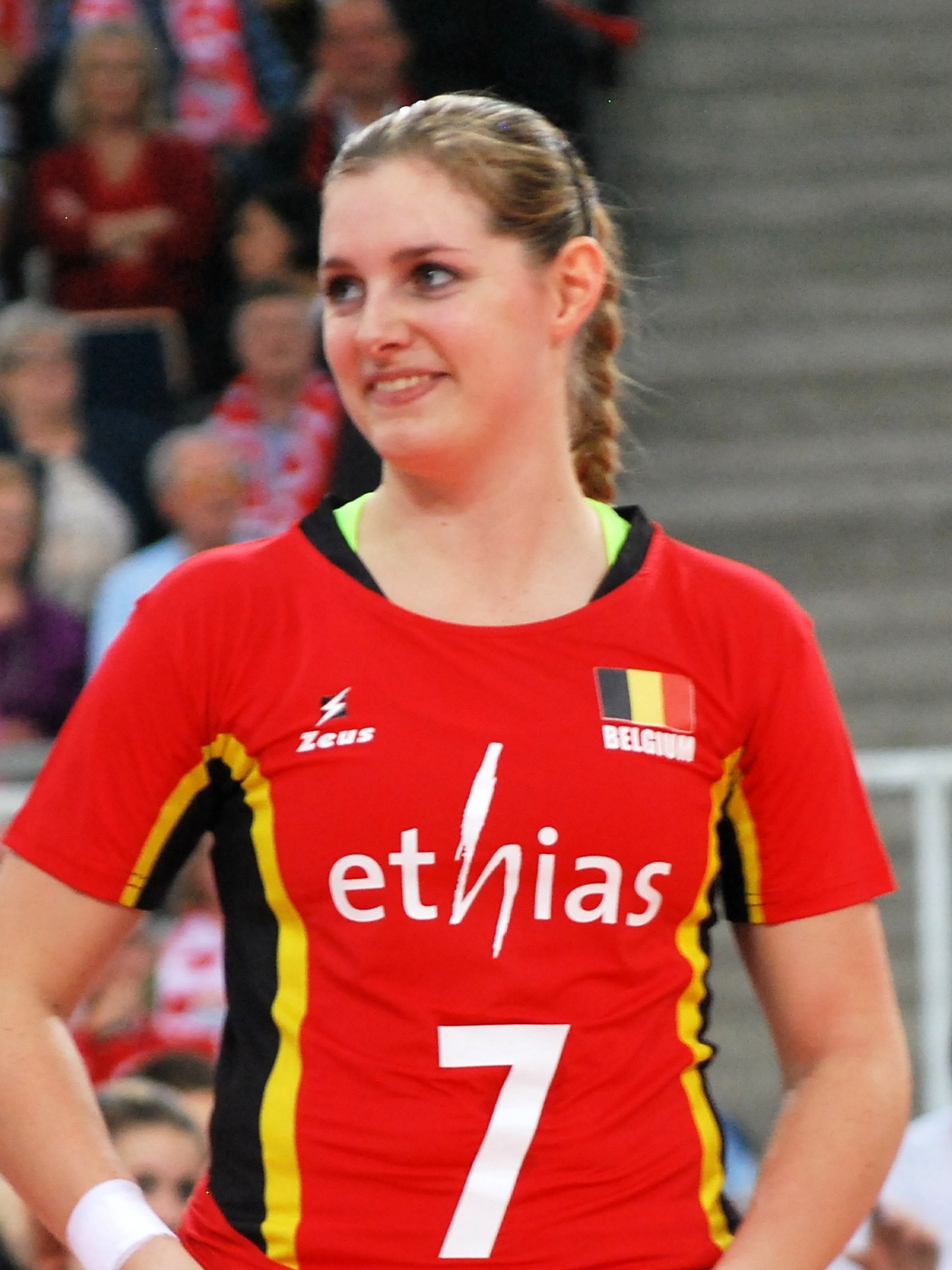 FIVB World Championship European Qualification Women Łódź January 2014. Valerie Courtois - volleyball player from Belgium